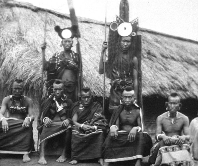 Black and white photographs taken by R.G. Woodthorpe, c.1873-1875 Tangkhul Nagas photographs Tangkhul Woodthorpe/ R.G.(1873-1875). Pitt Rivers Museum Archive, Oxford AL.62.1.4